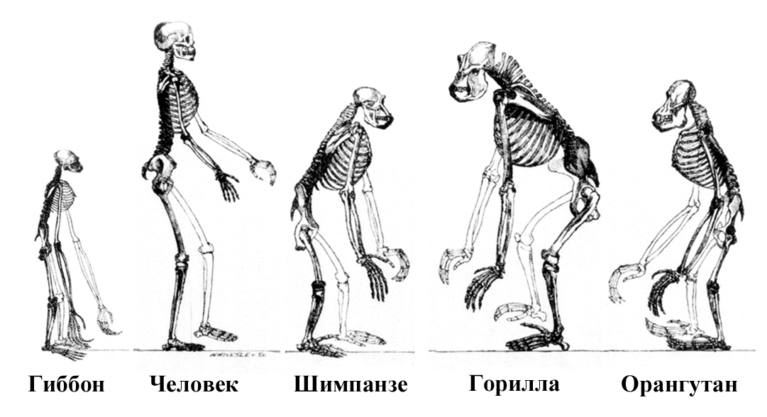 Modification of Image:Huxley - Mans Place in Nature.jpg Gibbon now shown at natural size.